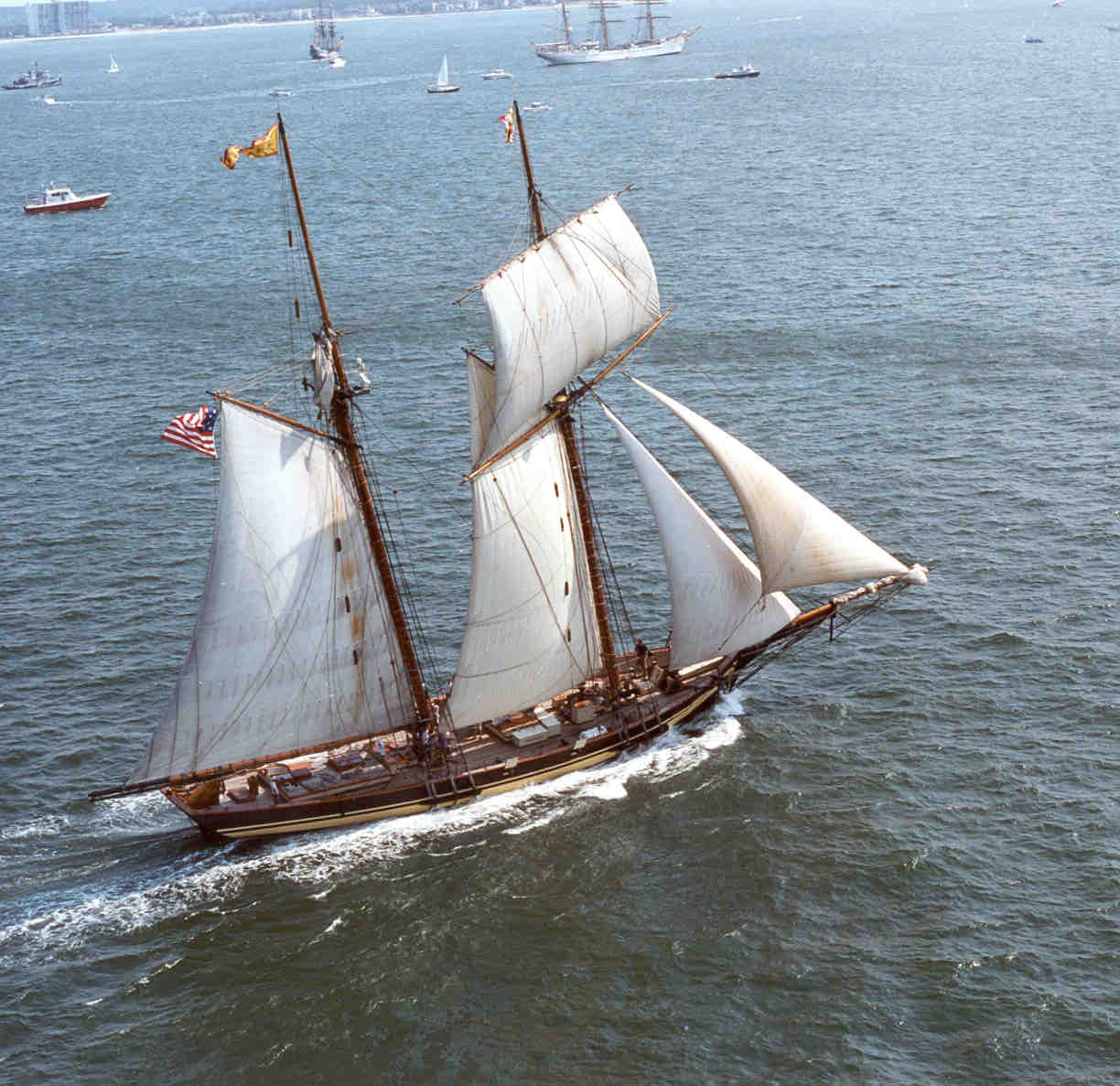 Pride of Baltimore at OpSail 2000